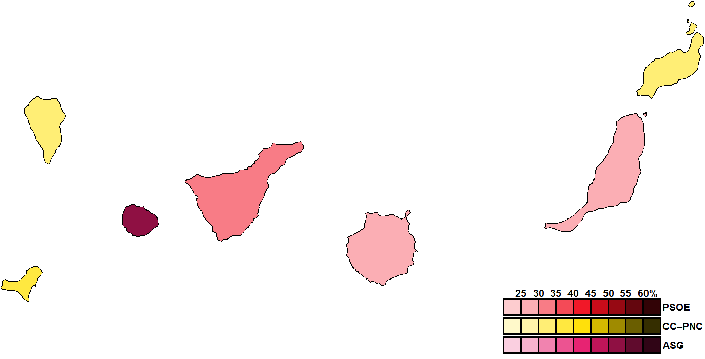 District results for the 2019 Canarian regional election.